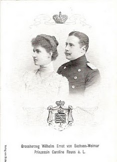 William Ernst, Grand Duke of Saxe-Weimar-Eisenach and his first wife Princess Caroline Reuss of Greiz